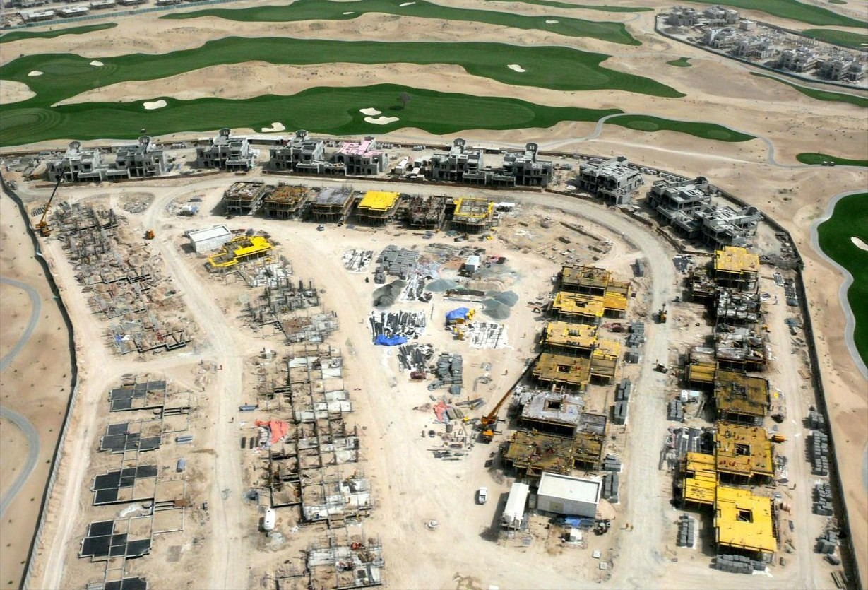 This is an aerial view of Dubai Sports City, located in Dubai, United Arab Emirates, on 8 May 2008. This photo was taken from a helicopter ride courtesy of Nakheel.